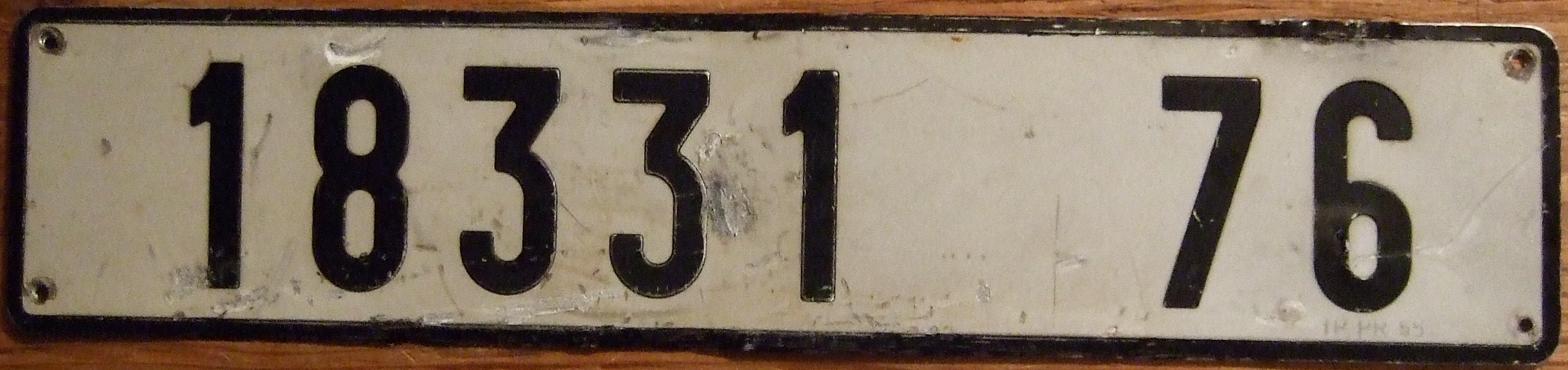 French tractor plates have an all numeric serial number succeeded by the department (county) code.